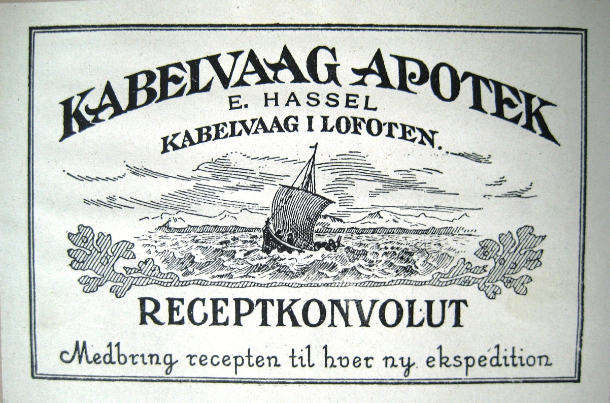 Pharmacy tag drawn by Robert Hassel